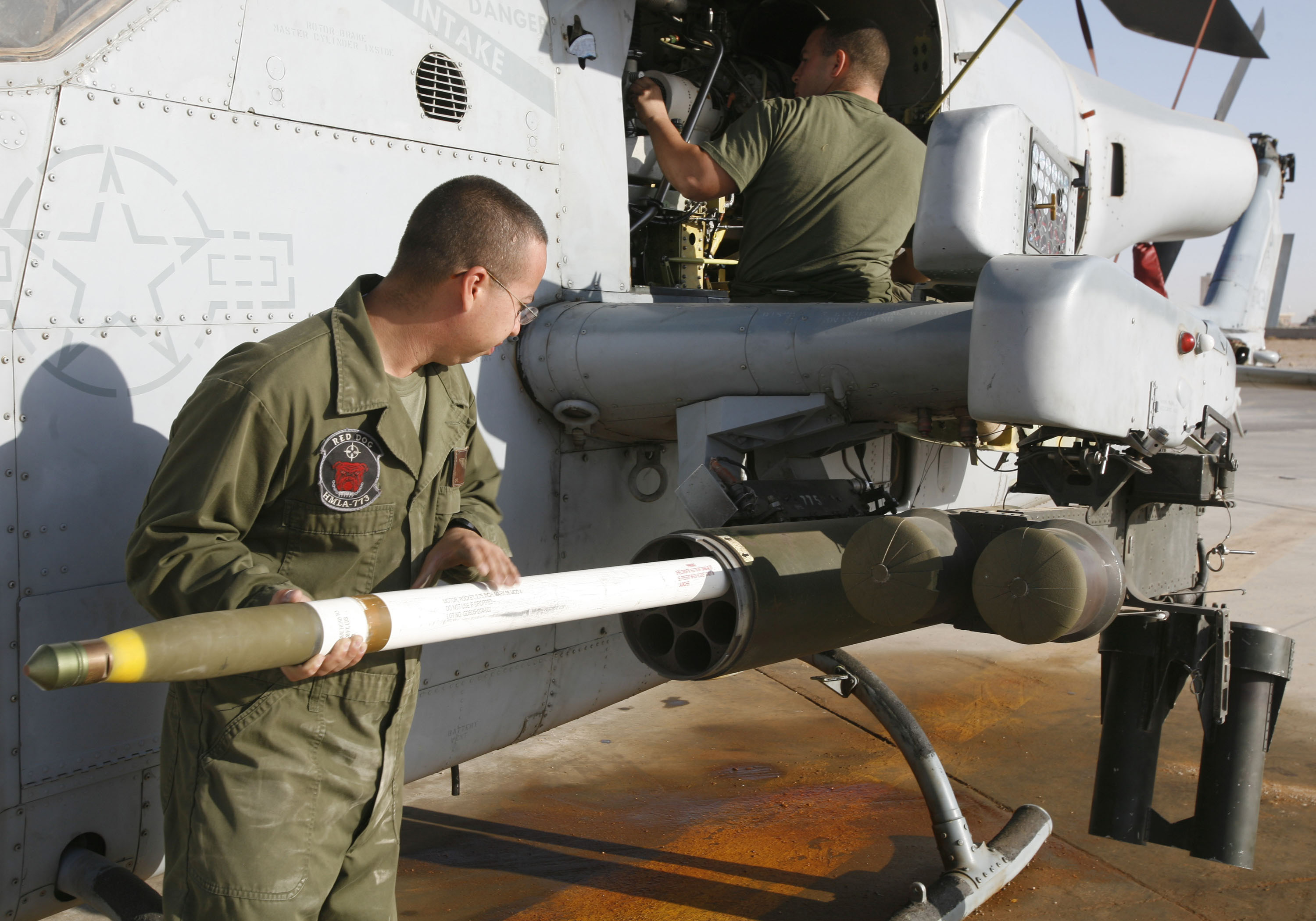 U.S. Marine Corps Corporal Eddie Billman Jr., an ordnance technician with Marine Light Attack Helicopter Squadron (HML/A)-773, loads a 2.75 high explosive rocket into a LAU 68 (Launch Unit) on an AH-1W Super Cobra on Al Asad Air Base, Iraq on November 5, 2007. HML/A-773 provides offensive air support, utility support, armed escort and airborne support. (U.S. Marine Corps photo by Cpl. Sheila M. Brooks) (Released)